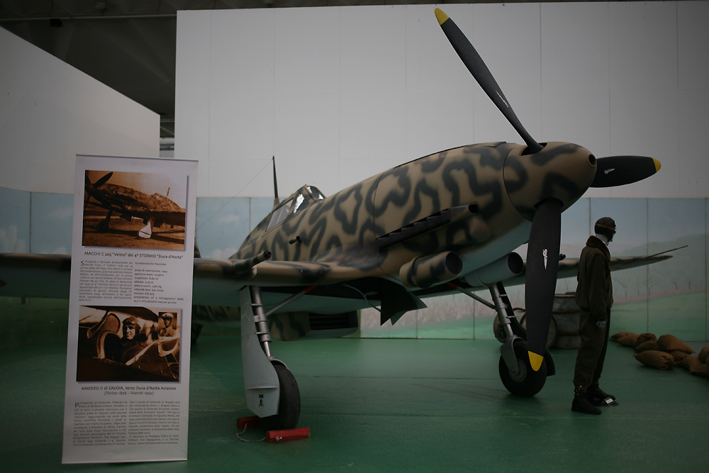 Macchi C 205 "Veltro" operating with 4° Stormo Duca d'Aosta, 1943. Torino Esposizioni exhibition in Turin, Italy, March 2010